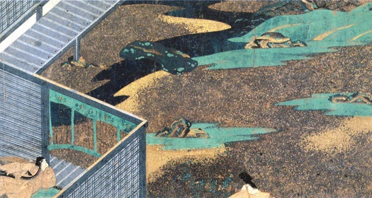 Kubokebon Ise monogatari emaki 久保家本伊勢物語絵巻 (early 14c.; Kubo Sou, Memorial Museum, Osaka.